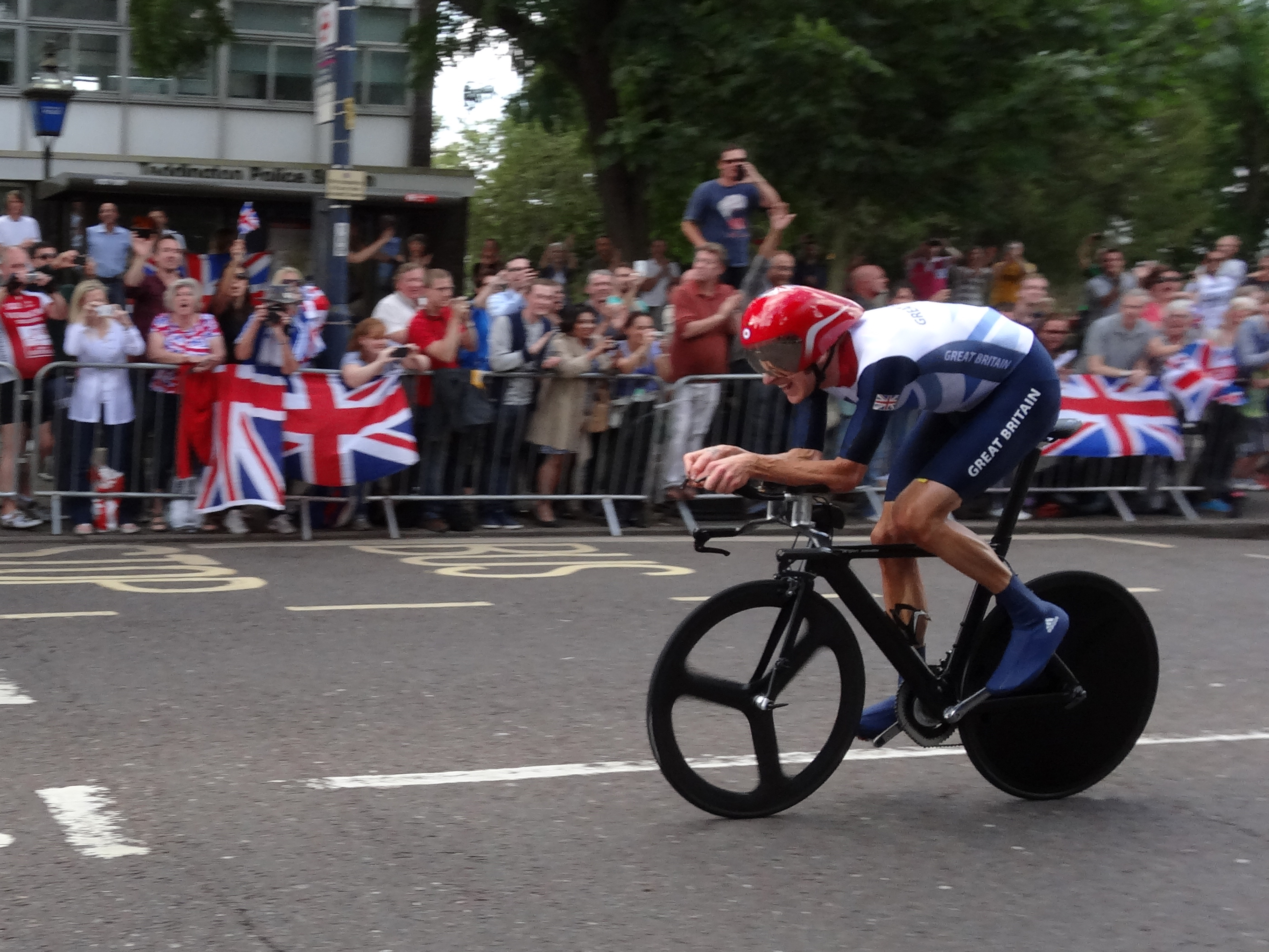 Bradley Wiggins at 2012 London Olympics men's time trial event.